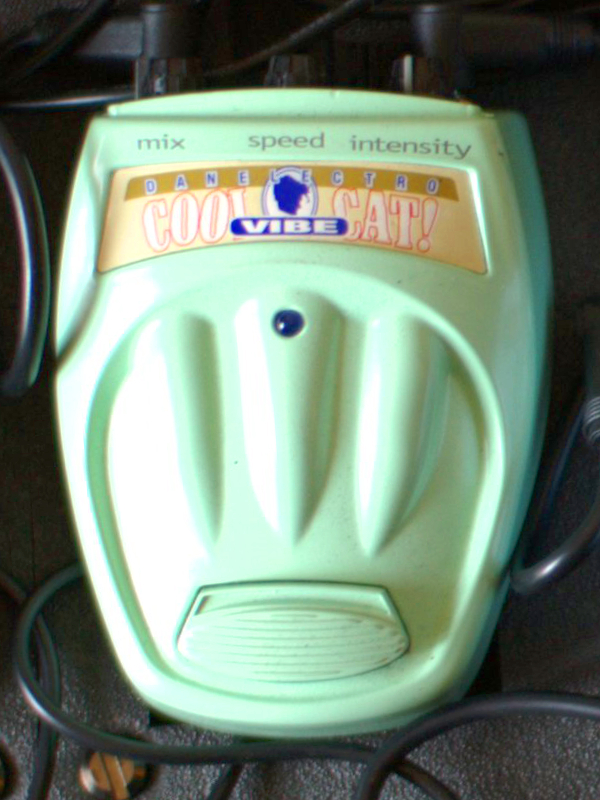 Danelectro Cool Cat Vibe - Anders pearson's pedalboard (2010-03-20_11.07.50) Original description Current configuration. I'm still experimenting and swapping stuff out. I'll cut foam and do better cable management once it's settled a bit more.TC Electronics Polytune ⇒ Morley Bad Horsie Wah ⇒ Rocktron Short Timer Delay (set with just a tiny delay to widen the sound a little) ⇒ Danelectro CTO-1 Transparent Overdrive ⇒ Boss HM-2 (my roommate stumbled across an amazing distortion tone using an odd combo of the CTO-1 and HM-2, that's why it's on there) ⇒ Boss MT-2 (for serious scooped metal) ⇒ Digitech Hyper Phase ⇒ Danelectro CV-1 Vibe ⇒ Danelectro CT Tremelo ⇒ Digitech Hyper Delay ⇒ Amp. All sitting on a Behringer PB1000 pedalboard.I still have a lot more pedals than fit on the board so I'm not sure what to do. The current setup is oriented towards running into my roommate's Blackheart Little Giant amp (which sounds great but is pretty minimalist) and getting fun noises, rather than being a tight metal rig.